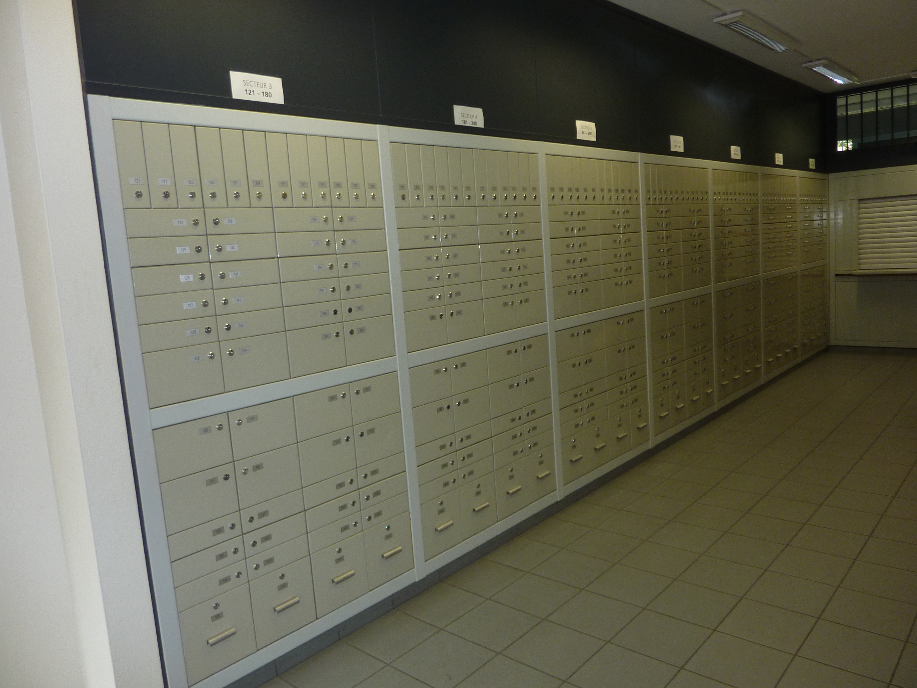 Post office boxes in Geneva Object location46° 11′ 41.64″ N, 6° 09′ 07.11″ E